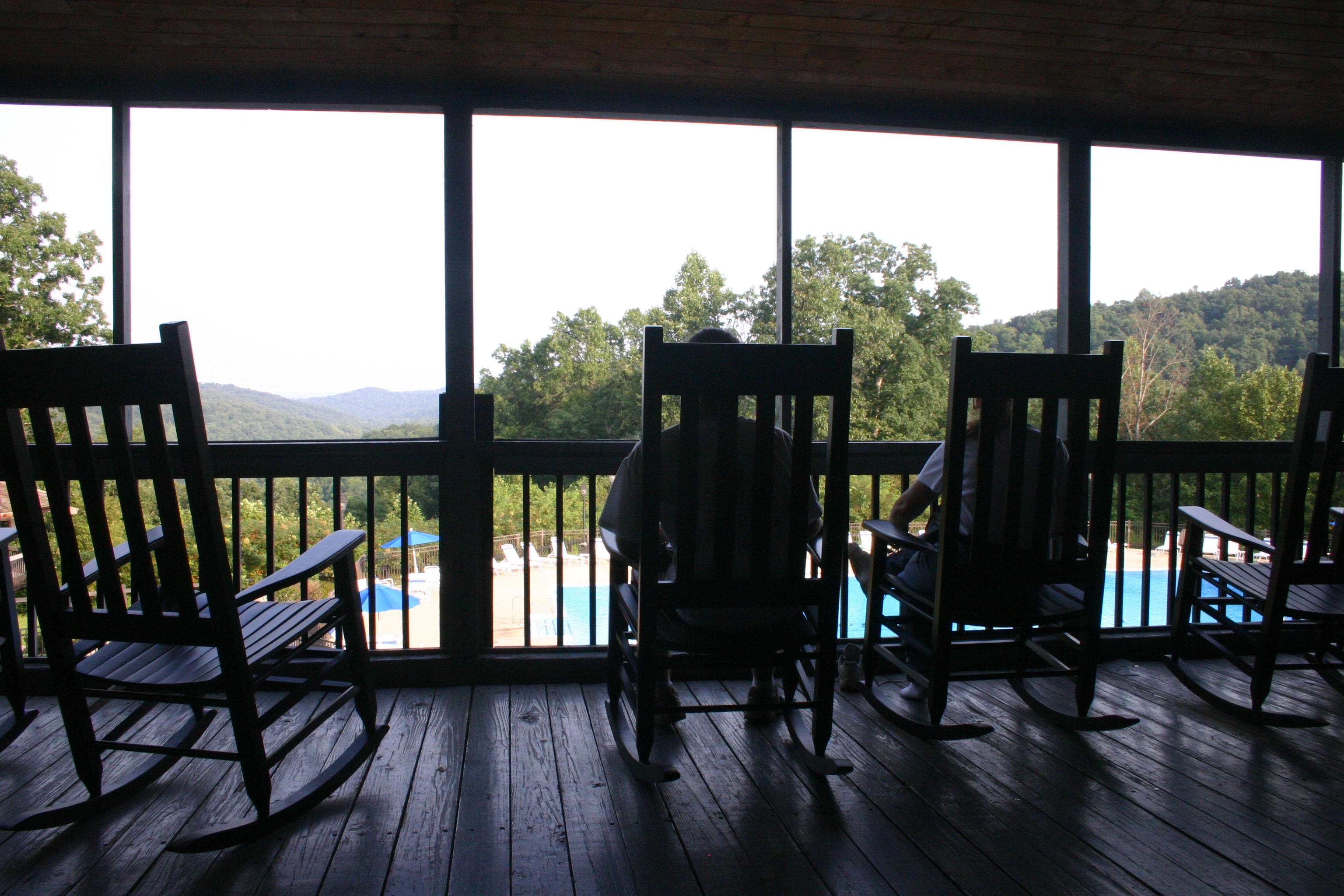 Rocking chairs line the second floor back porch of the lodge at Shawnee State Park in Scioto County, Ohio. Overlooking Turkey Creek Lake, the lodge includes 50 guest rooms, a dining room, meeting rooms, indoor and outdoor pools, a game room, and tennis, basketball and shuffleboard courts.